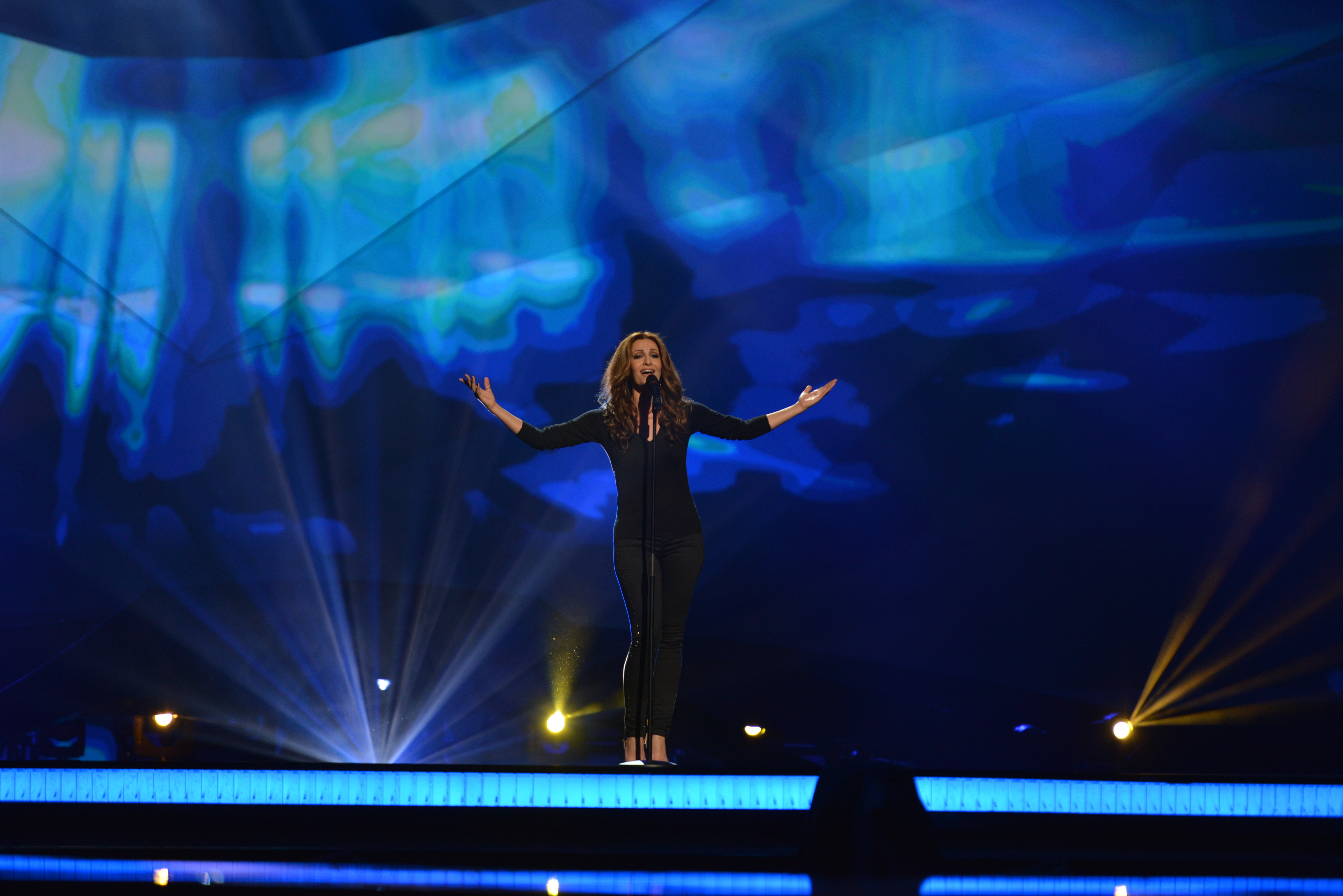 Despina Olympiou representing Cyprus with the song "An me thimase" (Aν με θυμάσαι) during the first dress rehearsal of the first semi final of the Eurovision Song Contest 2013 in Malmö. (Help translate this text)